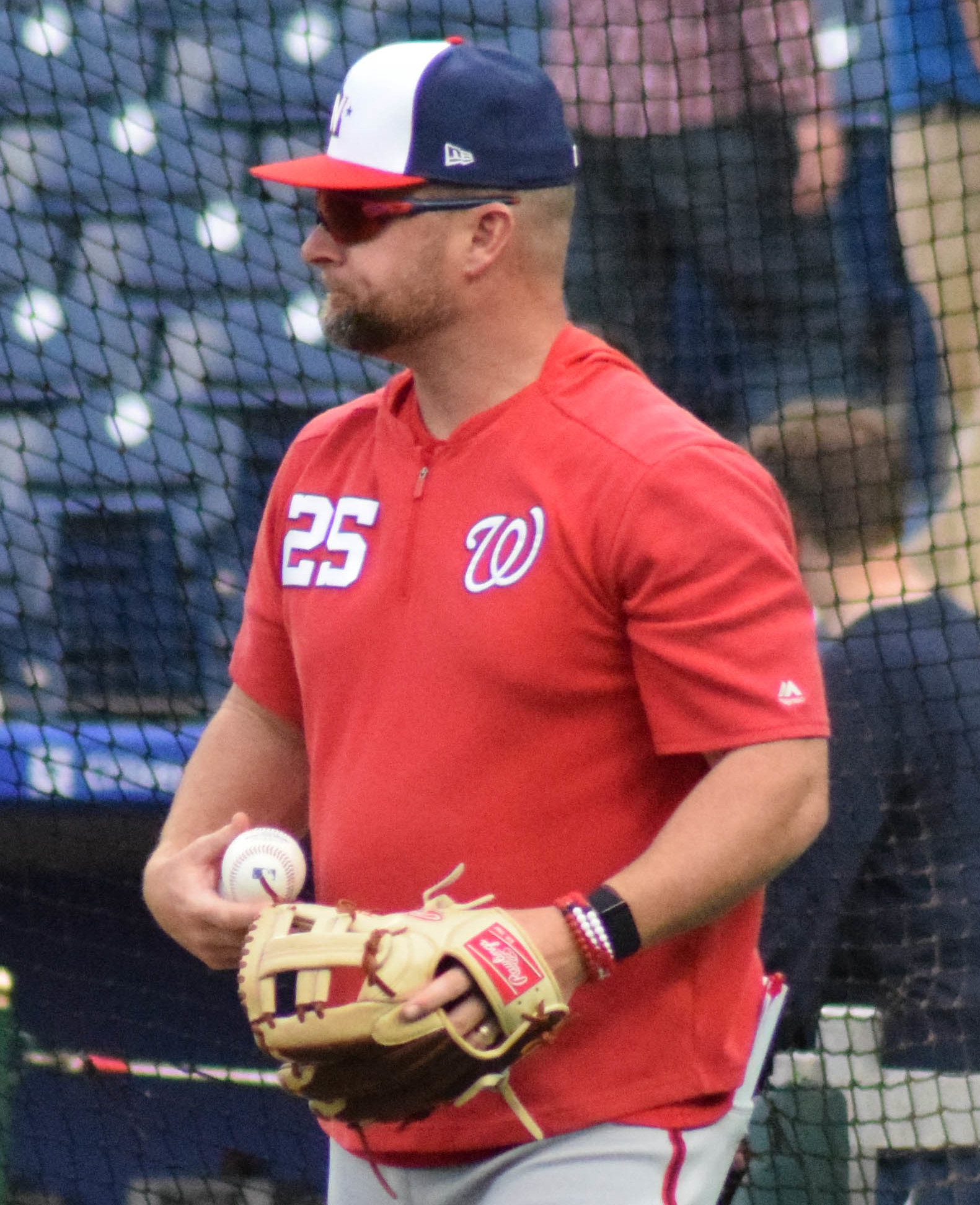 Coach Joe Dillon of the Washington Nationals before a game at Citizens Bank Park in Philadelphia in 2019